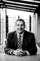 Geoff Bascand is the Government Statistician of New Zealand and the Chief Executive of Statistics New Zealand. He was appointed to these positions on 22 May 2007, and retires in 2013.